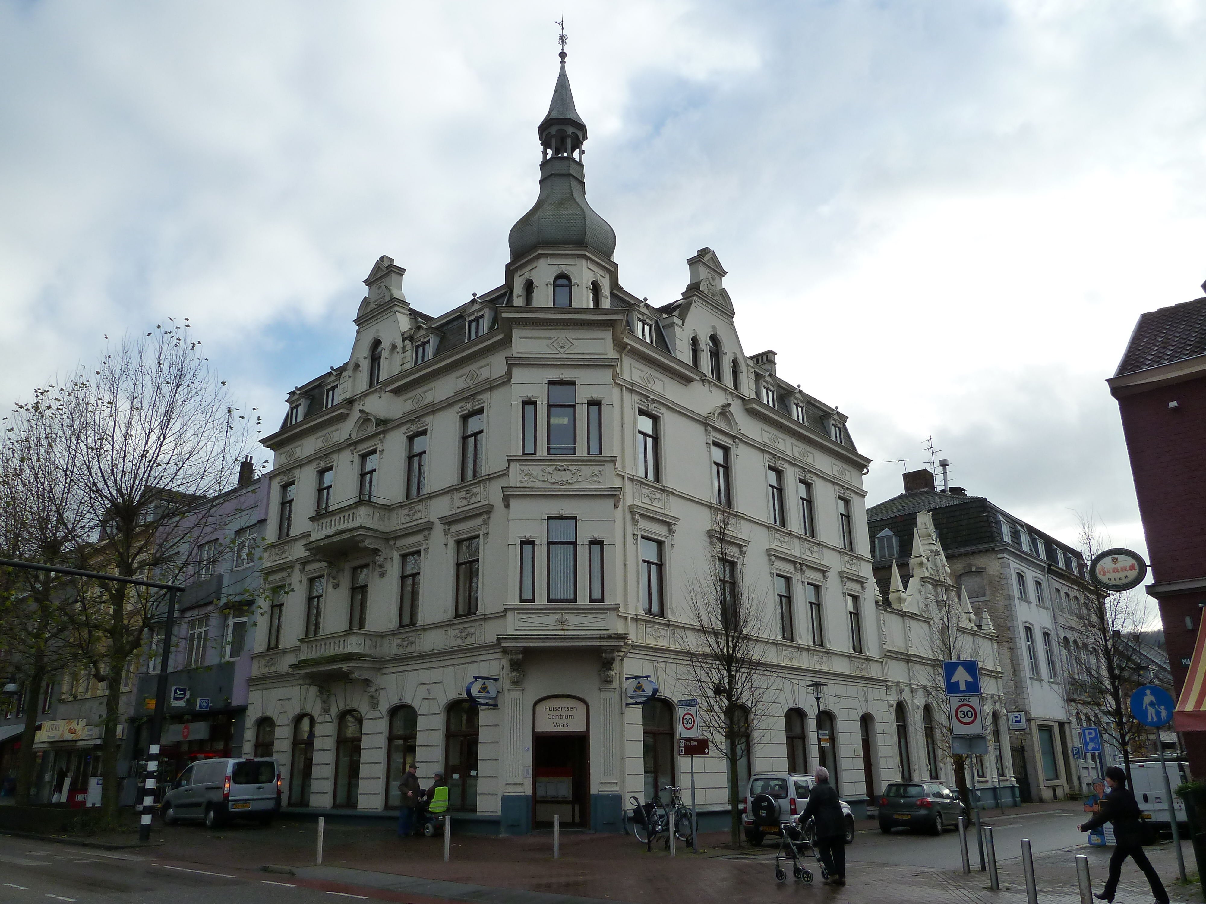 Maastrichterlaan 58, Vaals, Limburg, the Netherlands